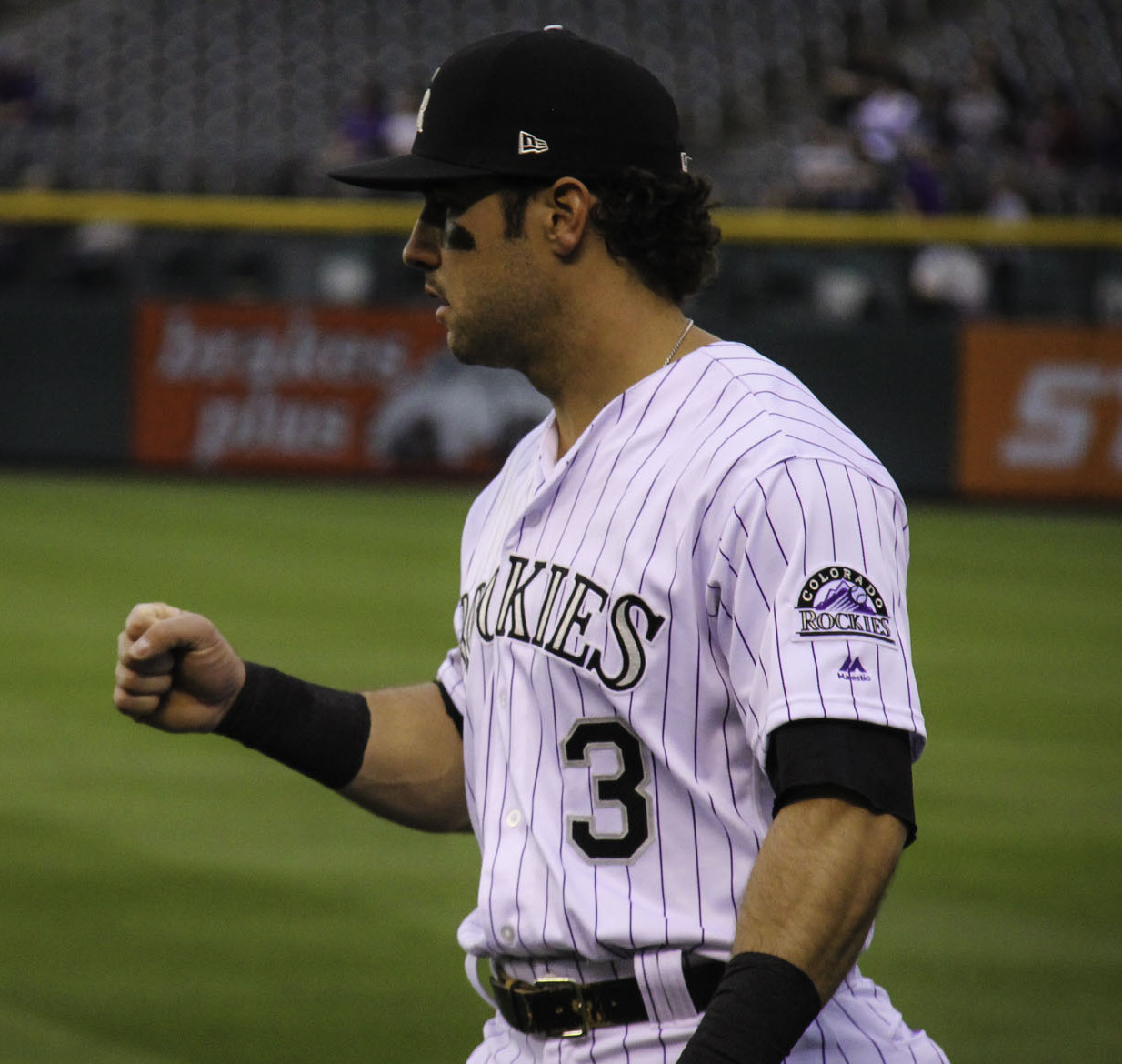 Mike Tauchman of the Colorado Rockies before a game against the San Diego Padres on April 10, 2018 at Coors Field.